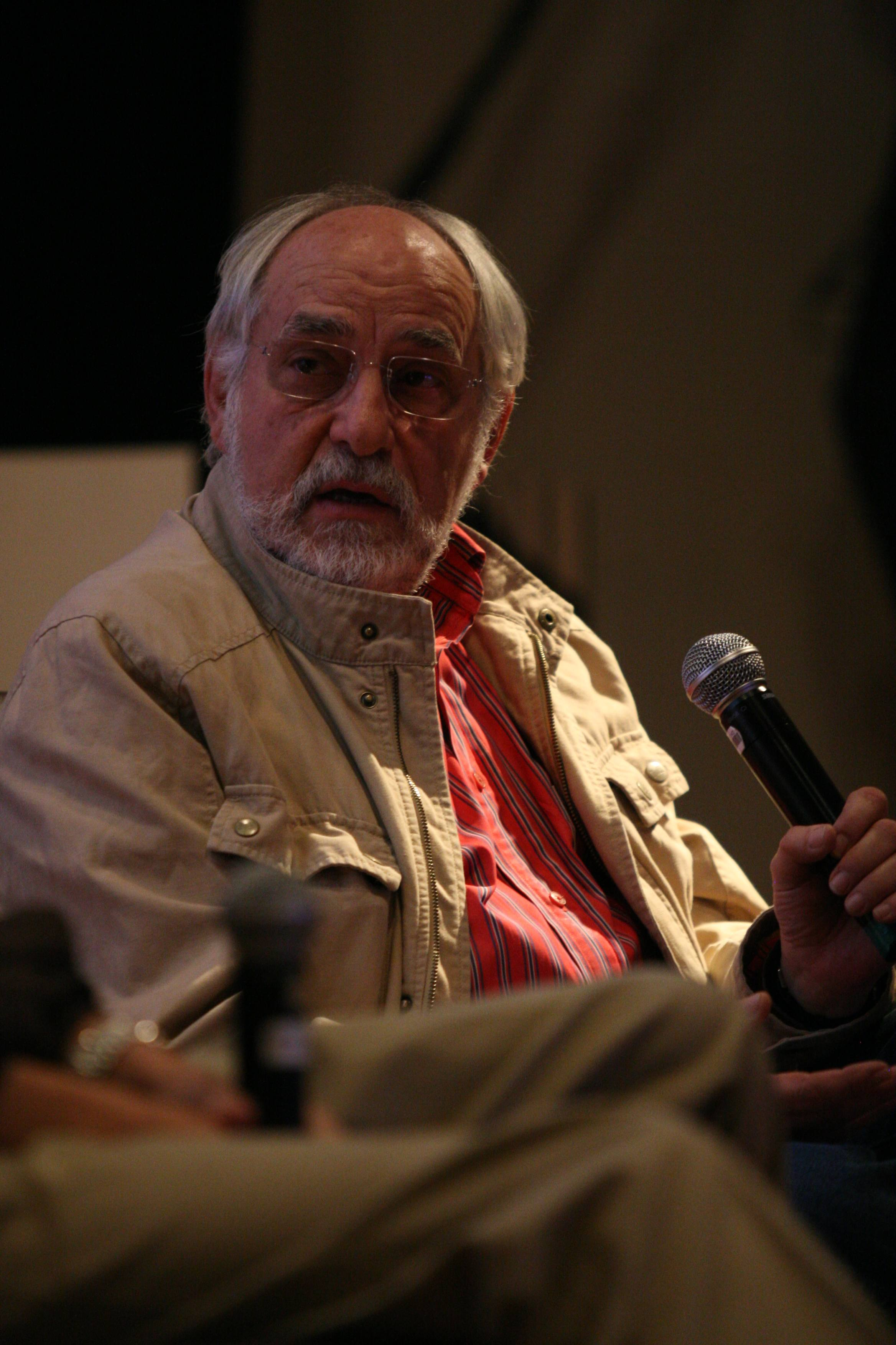 Arturo Ripstein